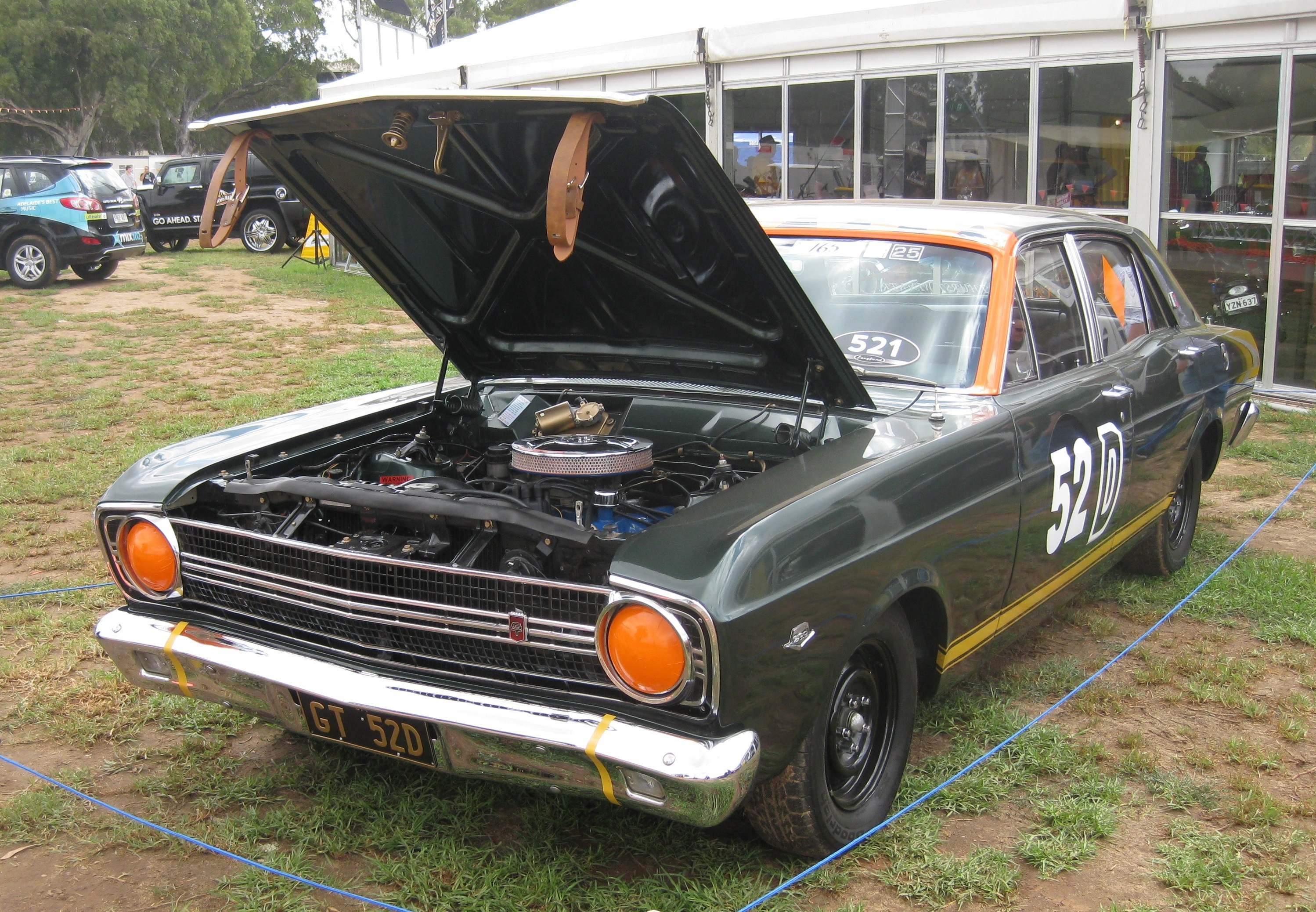 The 1967 Ford XR Falcon GT of Kris Argento. The car is a "race replica" of the Ford Falcon with which Harry Firth and Fred Gibson won the 1967 Gallaher 500 at Bathurst.